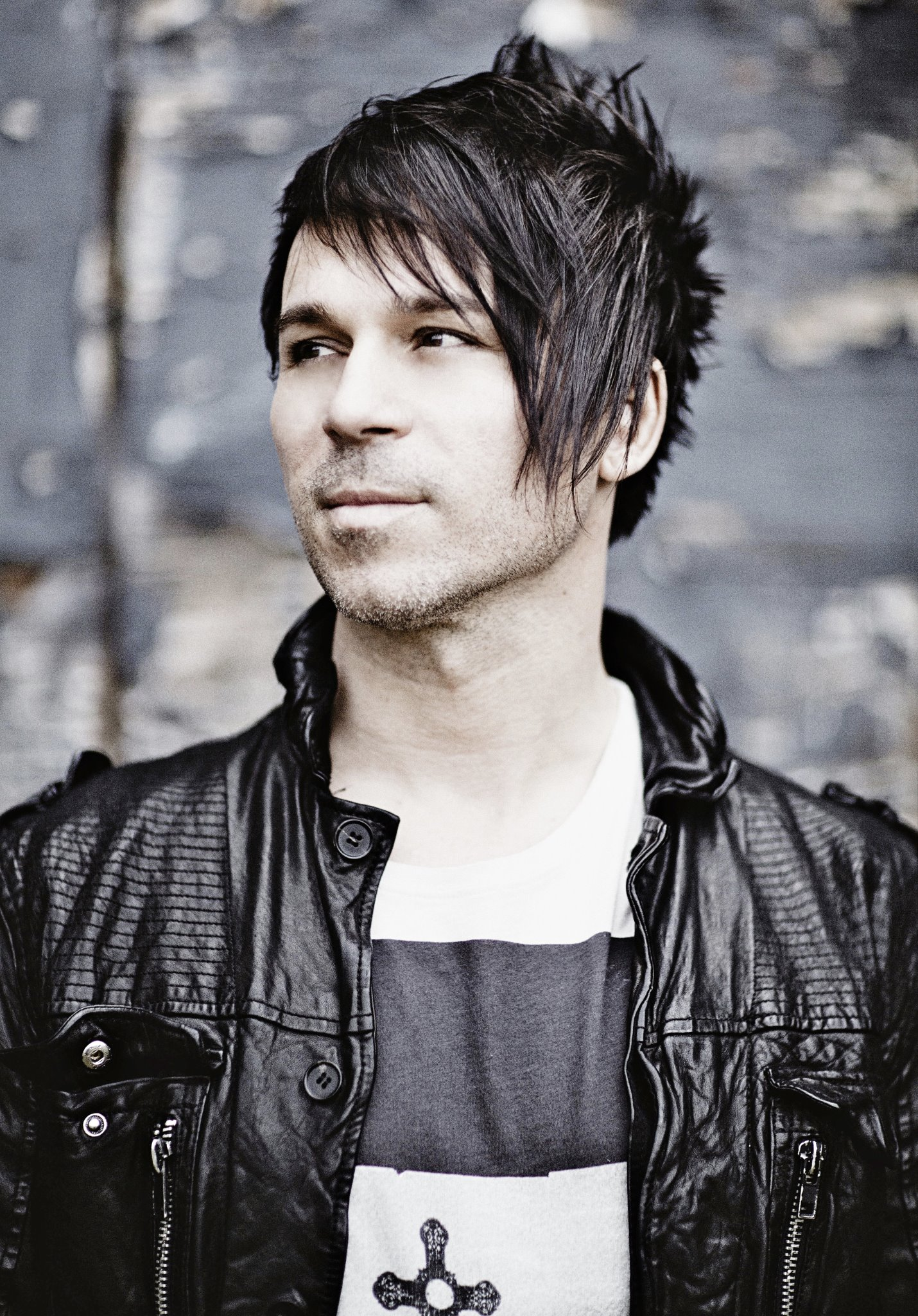 A 2009 photo of Brian Transeau, aka American musician BT.